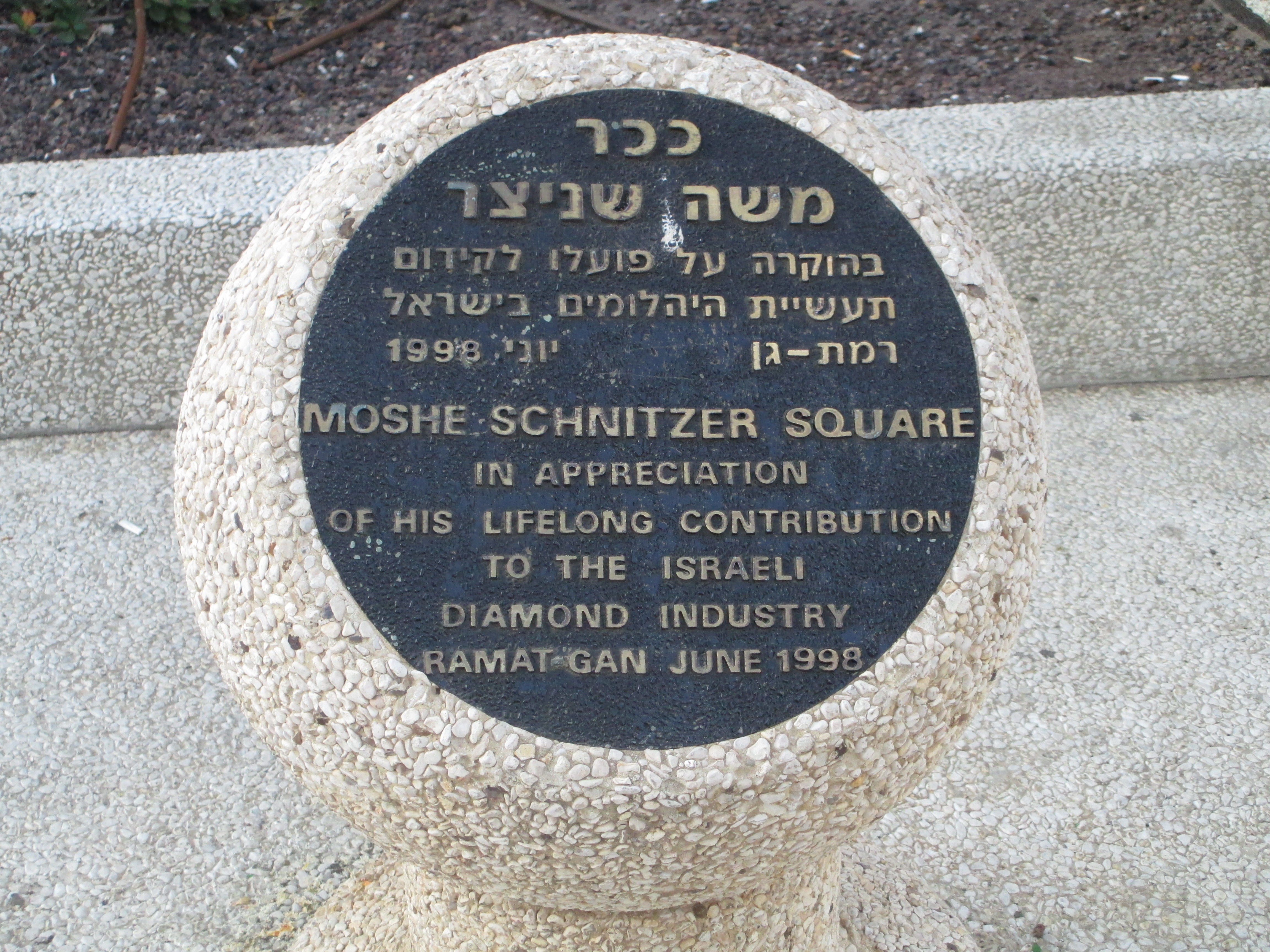 Moshe Schnitzer Square in Ramat Gan